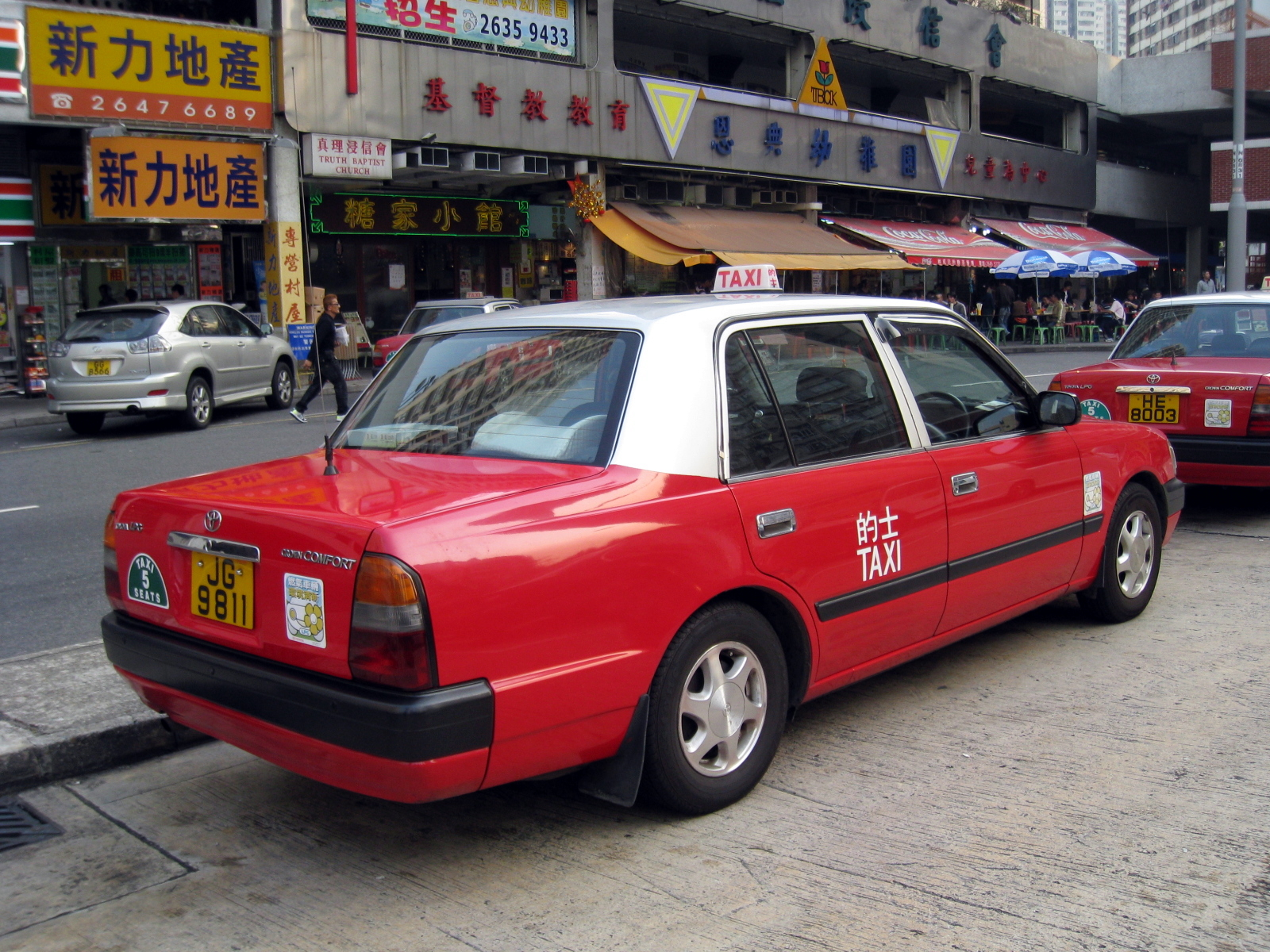 HK ToyotaComfort Red Taxi View